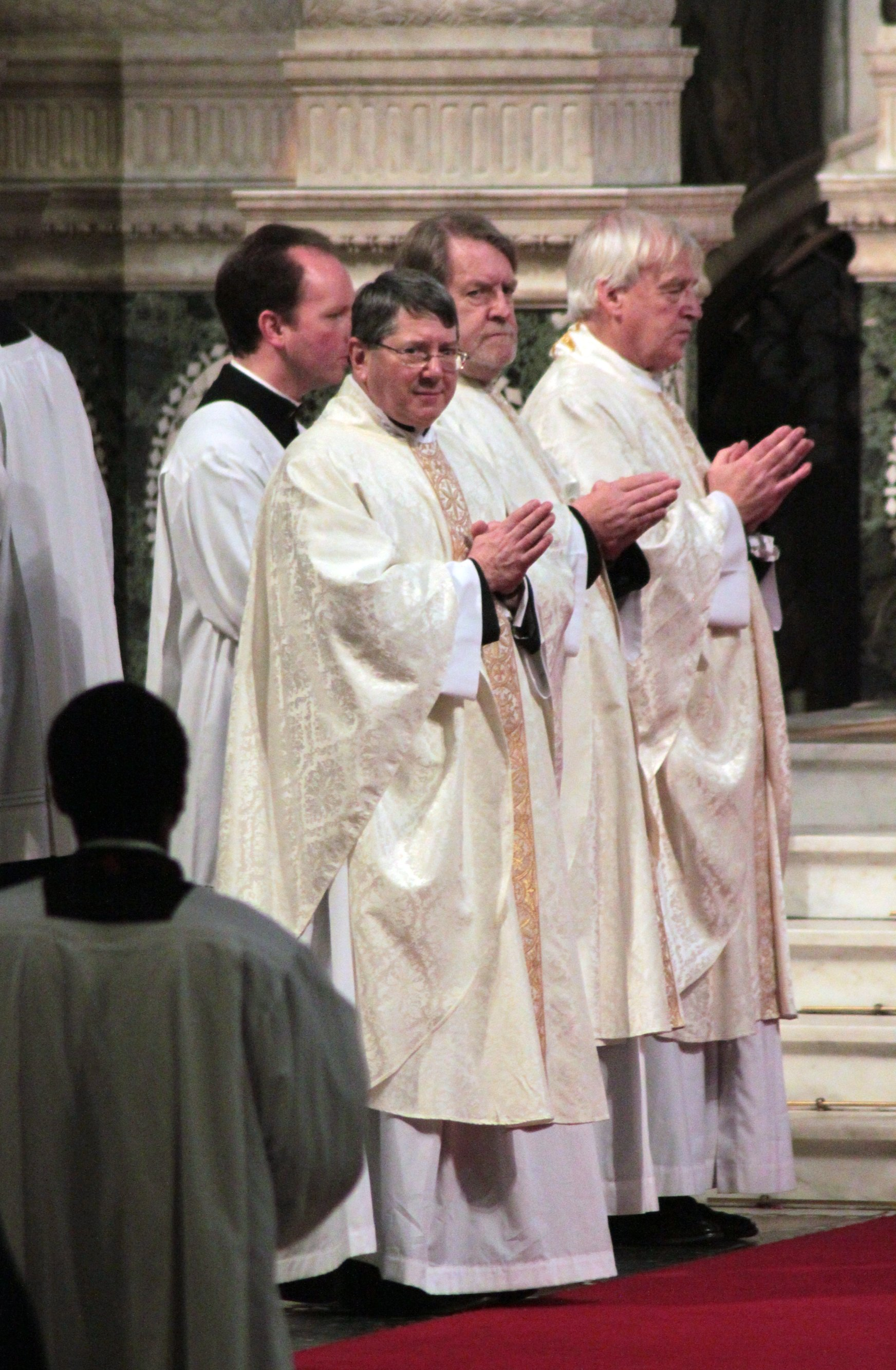 L to R: Fr Keith Newton, the Ordinary; Fr Andrew Burnham; Fr John Broadhurst during their ordination as Catholic priests.